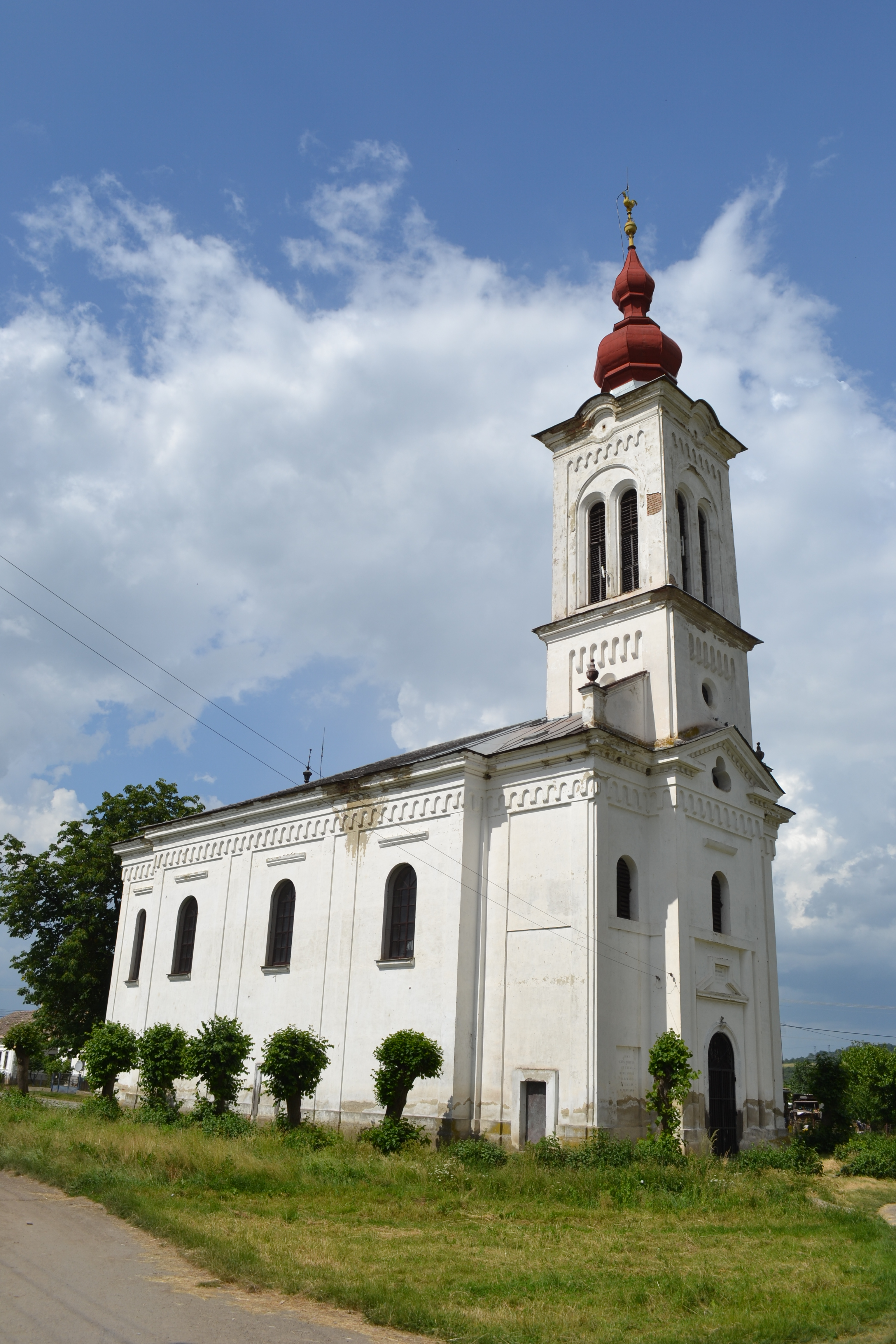 Calvinist church in RadnovceSlovenčina: Kalvínsky kostol v Radnovciach